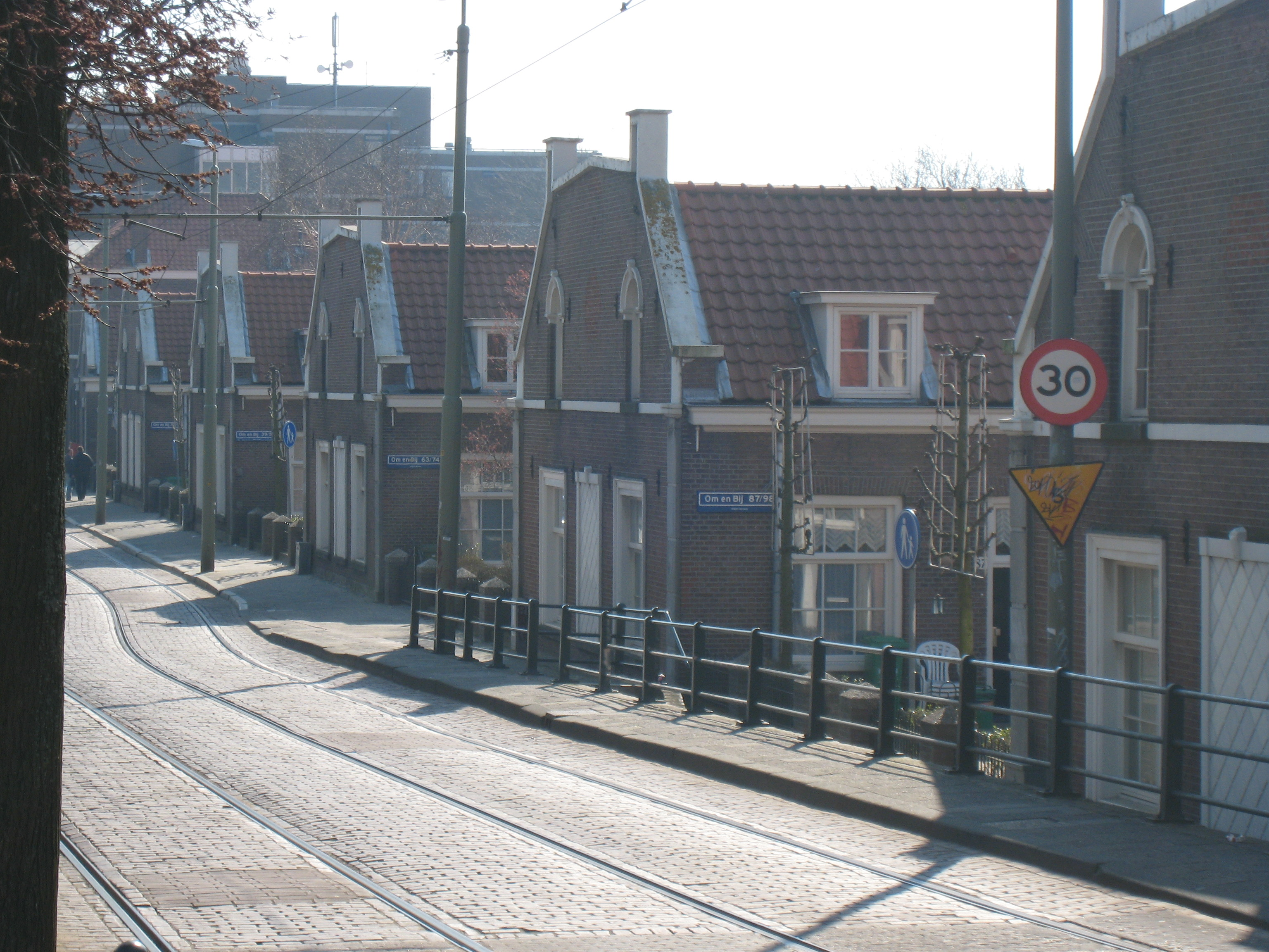 Om en bij in The Hague